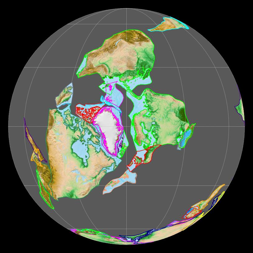 Laurasia during the closure of the Iapetus Ocean at 430 Ma. Made using GPlates: Citations: Golonka, J. (2007), Late Triassic and Early Jurassic palaeogeography of the world, Palaeogeography, Palaeoclimatology, Palaeoecology, 244(1-4), 297-307. Müller, R., M. Sdrolias, C. Gaina, and W. Roest (2008), Age, spreading rates, and spreading asymmetry of the world's ocean crust, Geochemistry, Geophysics, Geosystems, 9(Q04006), 19. Seton, M., R. Müller, S. Zahirovic, C. Gaina, T. Torsvik, G. Shephard, A. Talsma, M. Gurnis, M. Turner, and M. Chandler (2012), Global continental and ocean basin reconstructions since 200 Ma, Earth-Science Reviews, 113(3-4), 212-270. Torsvik, T., and R. Van de Voo (2002), Refining Gondwana and Pangea Palaeogeography: Estimates of Phanerozoic non dipole (octupole) fields, Geophysical Journal International, 151(3), 771-794. Wright, N., S. Zahirovic, R. D. Müller, and M. Seton (2013), Towards community-driven, open-access paleogeographic reconstructions: integrating open-access paleogeographic and paleobiology data with plate tectonics, Biogeosciences, 10, 1529-1541